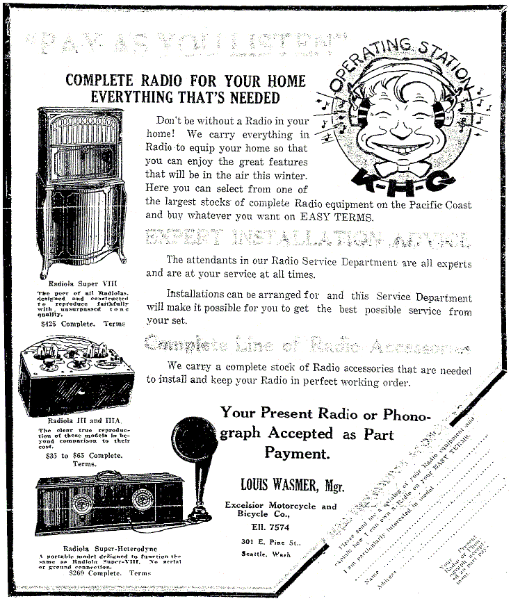 Advertisement for the Excelsior Motorcycle and Bicycle Co. of Seattle, Washington, which also promoted radio station, KHQ, which it operated at the time.